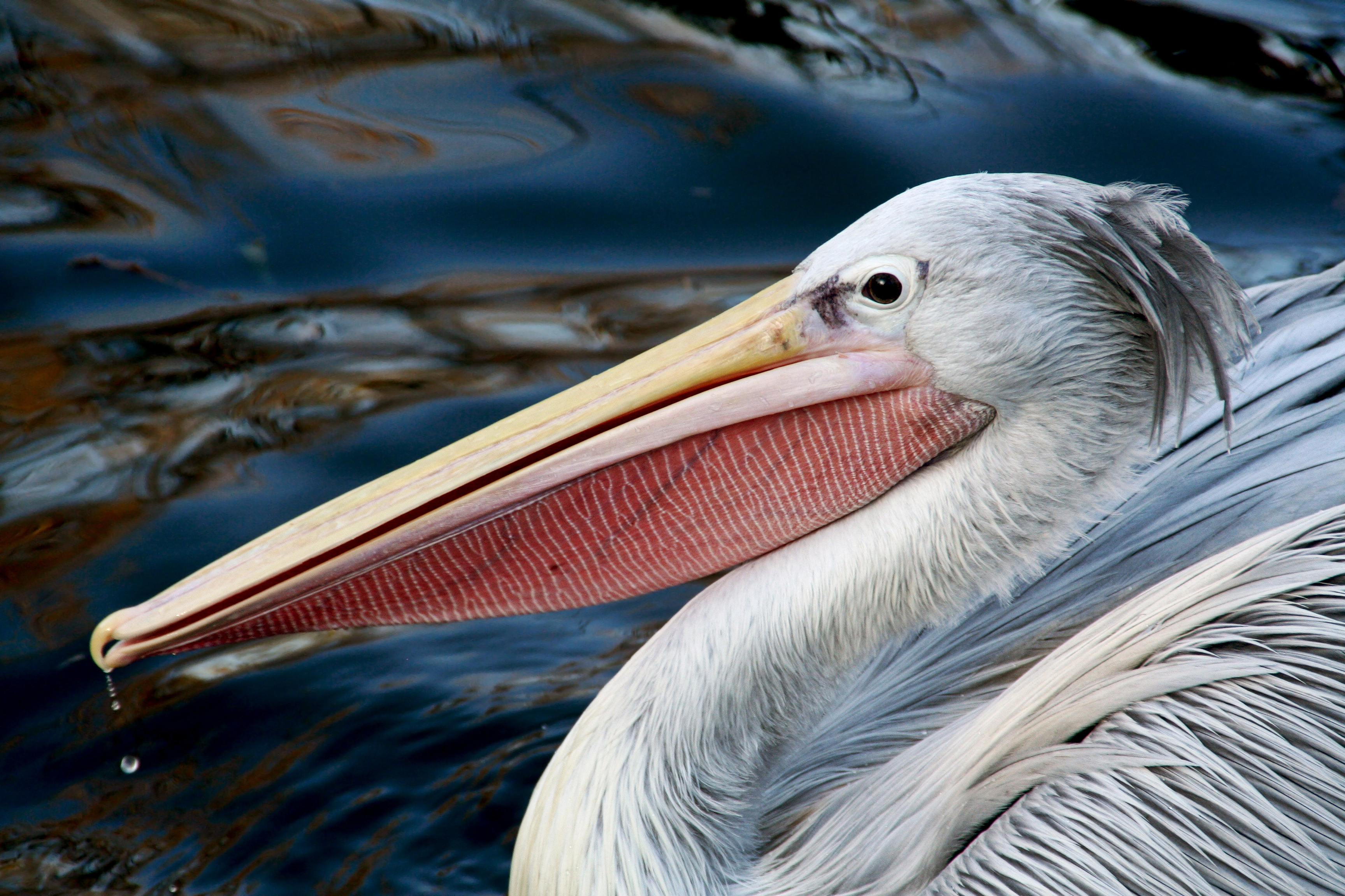 A Pinked Backed Pelican (Pelecanus rufescens), photographed at Bristol Zoo, UK. Edited version of original to reduce noise. Masked out the main subject to preserve detail, and reduced noise on blue channel and a small reduction overall on the background.